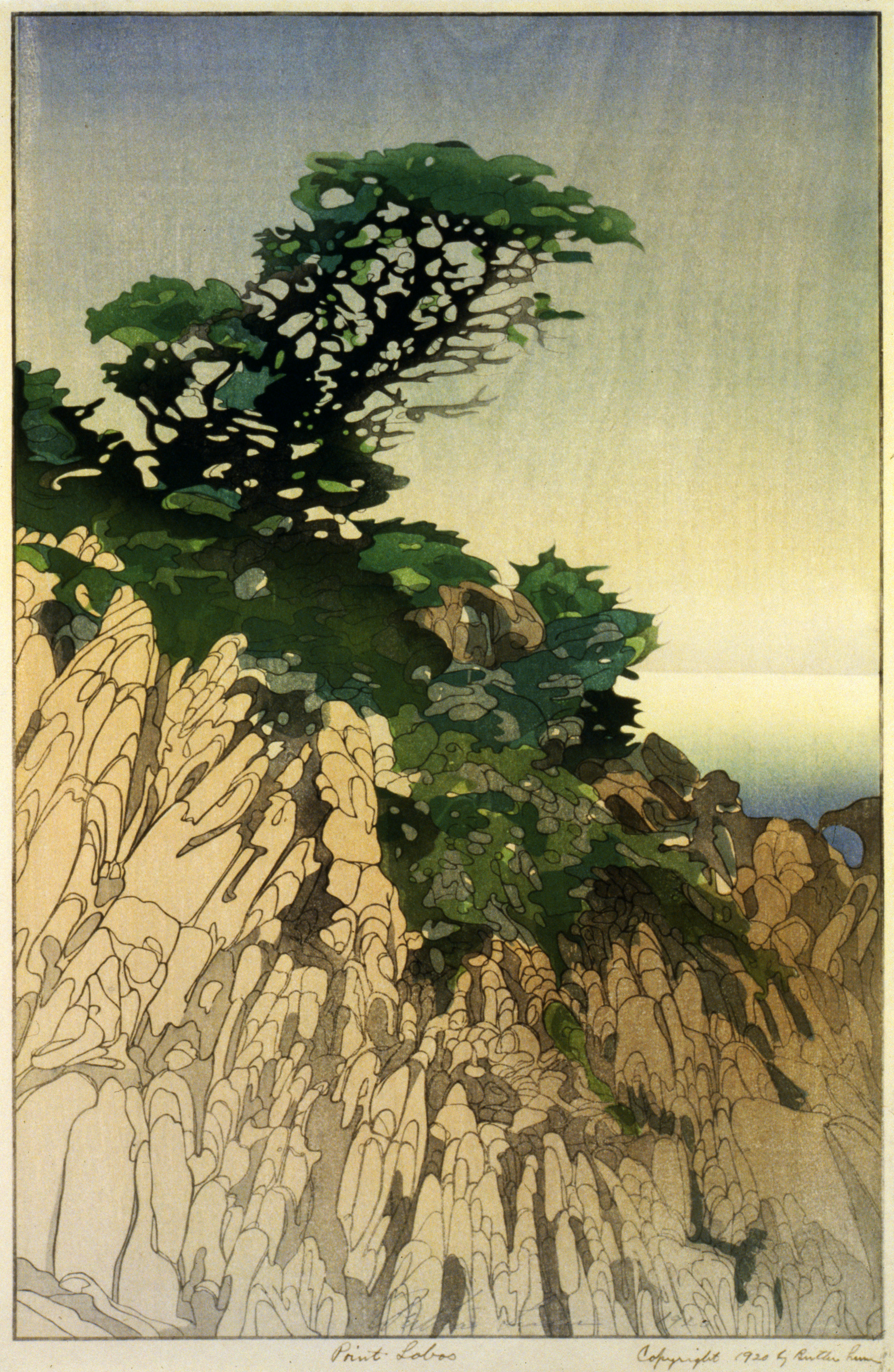 Trees and vegetation growing on rocks, Point Lobos, California(?). 1 print : woodcut, color.